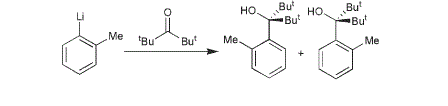 Alcoolbenz